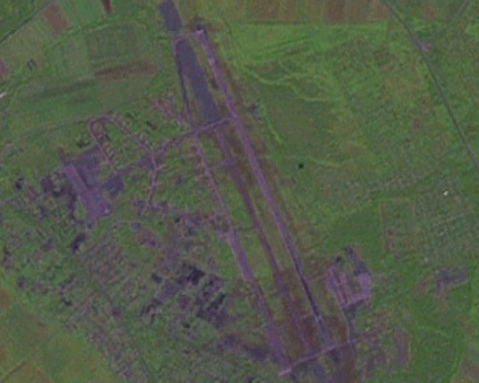 Satellite image of Yelizovo Airport in Petropavlovsk-Kamchatsky, Kamchatka Krai, Russia